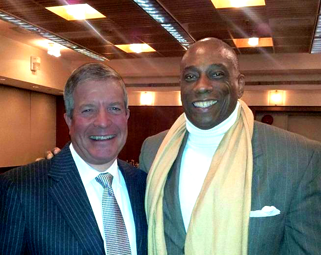 In 1988 the Juilliard music school began a tradition of honoring Martin Luther King Jr., at the instigation of then-student now-opera vocalist and actor Stacey Robinson (right). This photo in 2008 with Robinson and then-president Joseph Polisi was an occasion to celebrate 20 years of the school's showcasing the life and legacy of King. Robinson was one of the creators, directors and performers of the original showcase in 1988.)